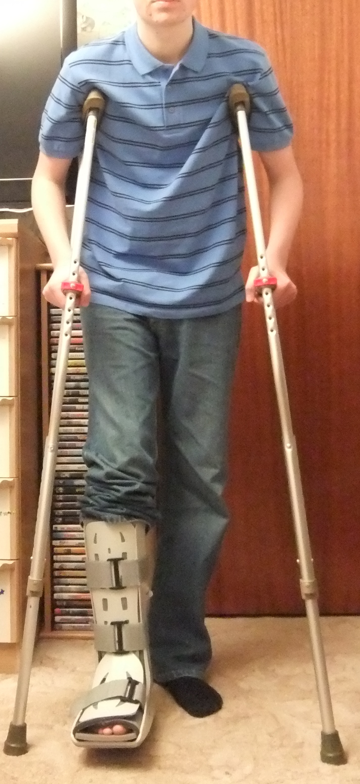 Axillary (underarm) crutches being used for non-weight bearing.